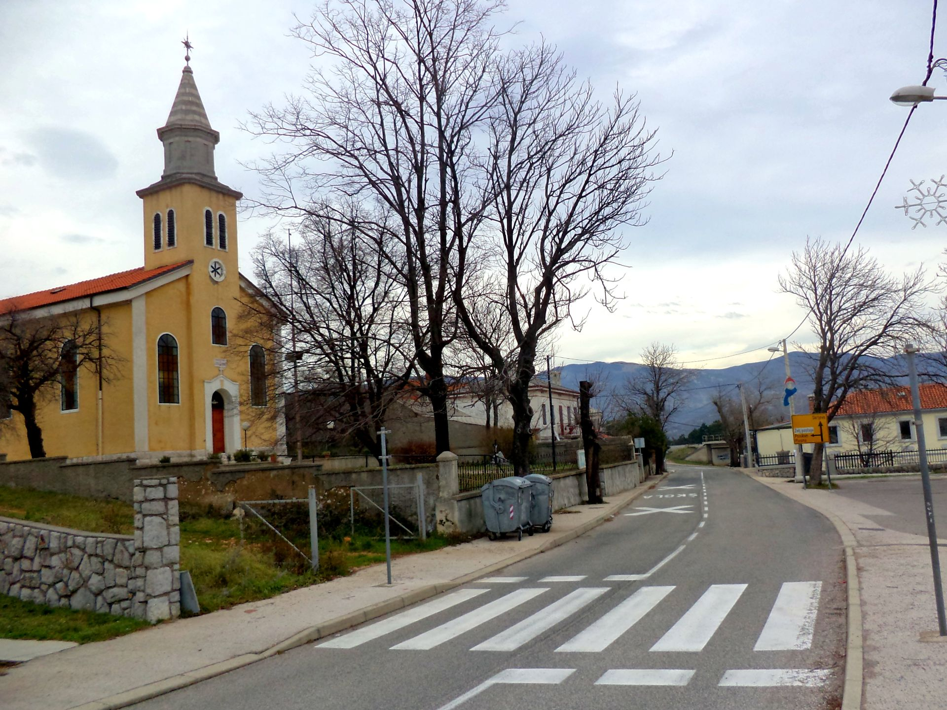 Church ( Church of the Sacred Heart of Jesus ) in Škrljevo